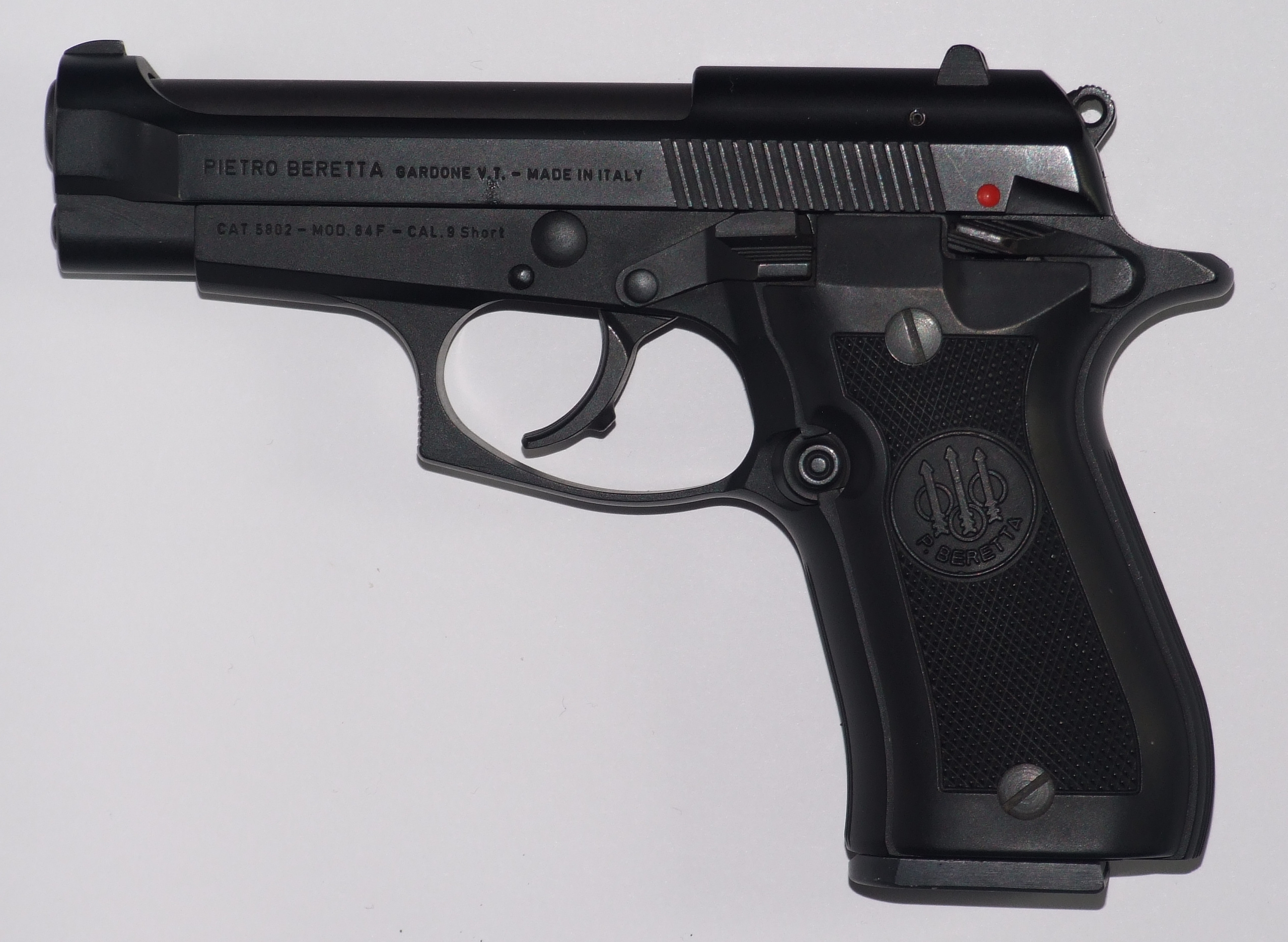 Italian pistol Beretta 84F caliber 9mm Short (380 ACP, 9mm Browning)